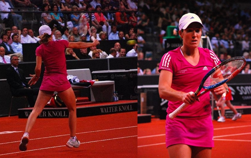 Justine Henin in Action during the 2010 Stuttgart Porsche Cup (which she won)